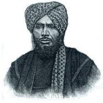 This is the picture of Imad ud-din Lahiz